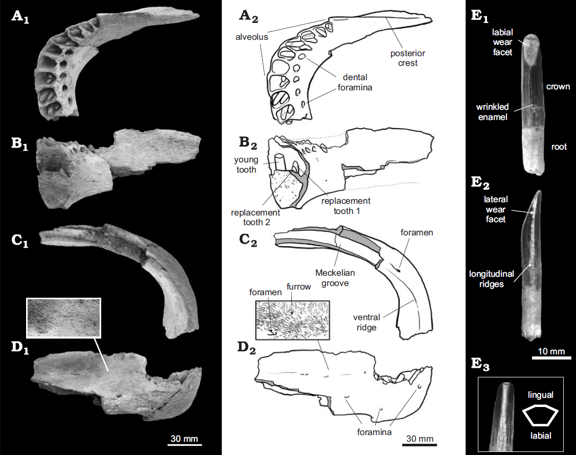 Photographs and interpretive drawings of the titanosauroid Bonitasaura salgadoi Apesteguía, 2004 from the Upper Neuquén Group of Río Negro province, Patagonia, MPCA 460. A–D. Right dentary in dorsal (A), medial (B), ventral (C), and lateral (D) views. E. Isolated tooth in labial (E1) and lateral (E2) views; lingual view detail and schematic cross section showing hexagonal faceting (E3).